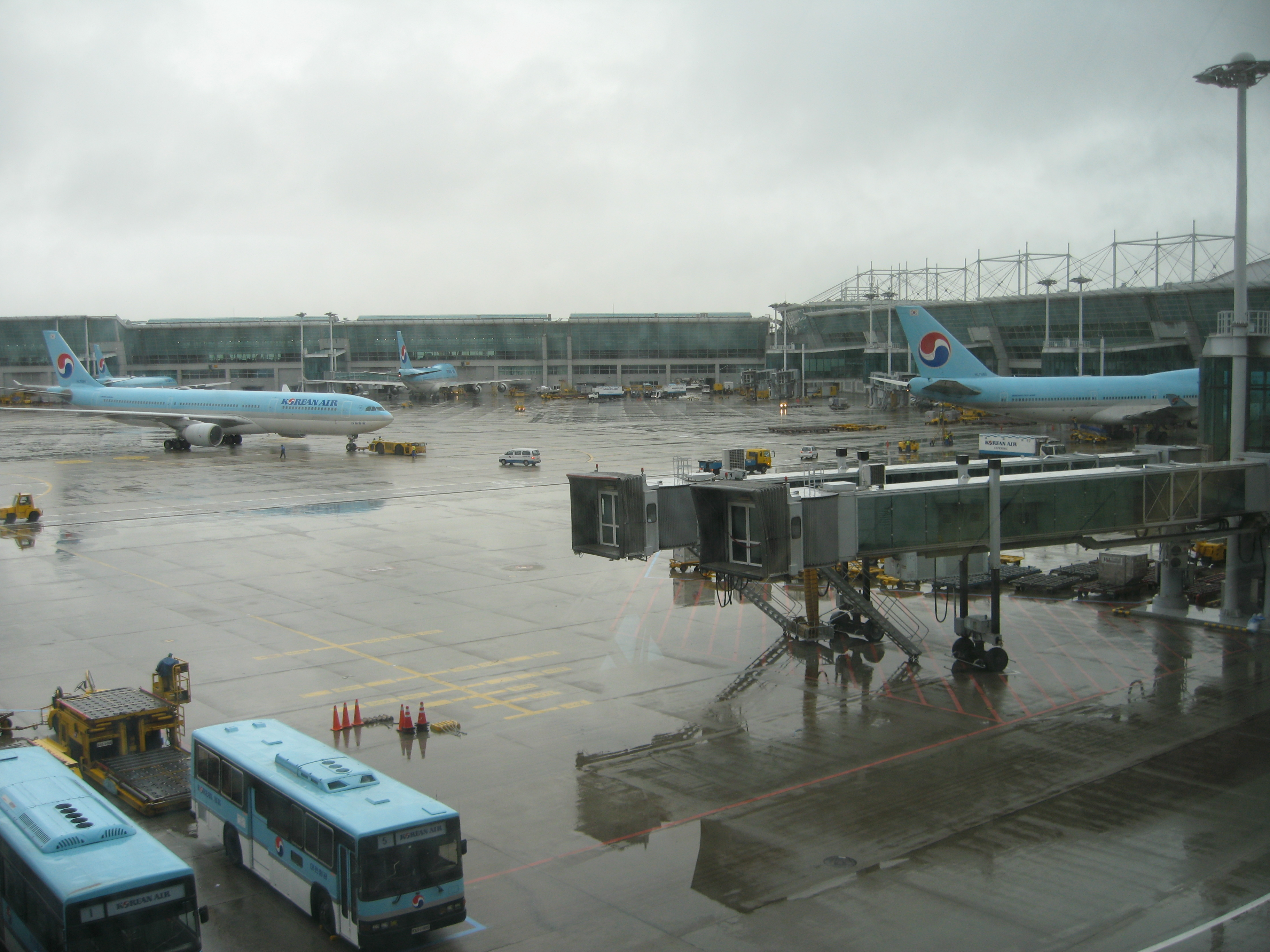 Korean airlines flight taxiing out at Seoul-Incheon airport.